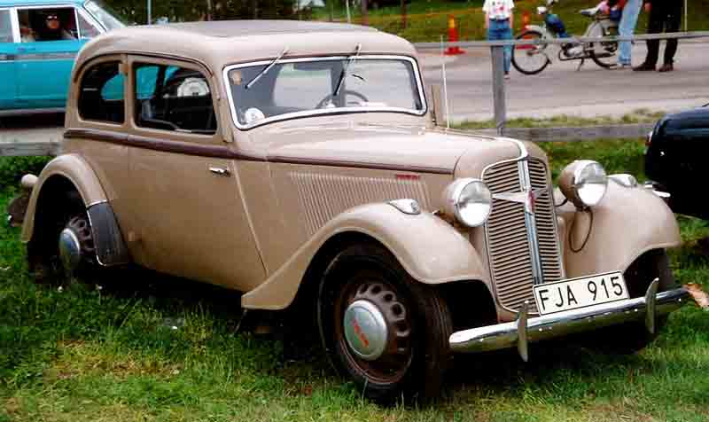 Adler Trumpf Junior Limousine 1938